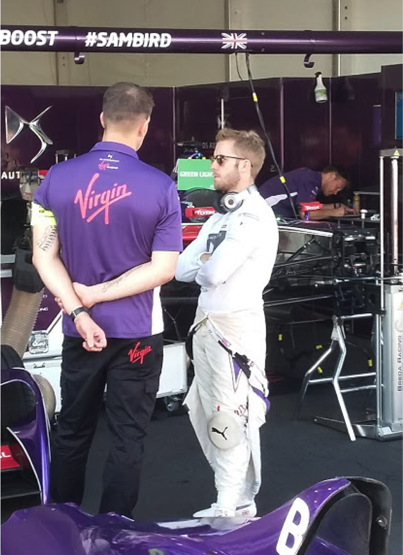 DS Virgin Racing driver Sam Bird stands in the NYC ePrix paddock prior to qualifications.